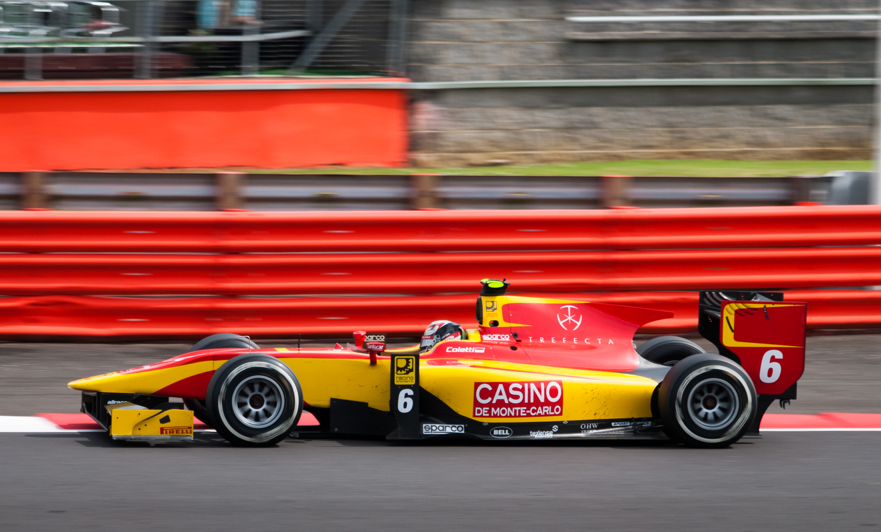 Stefano Coletti driving for Racing Engineering at Silverstone. Round 5 of the 2014 GP2 Series Championship.